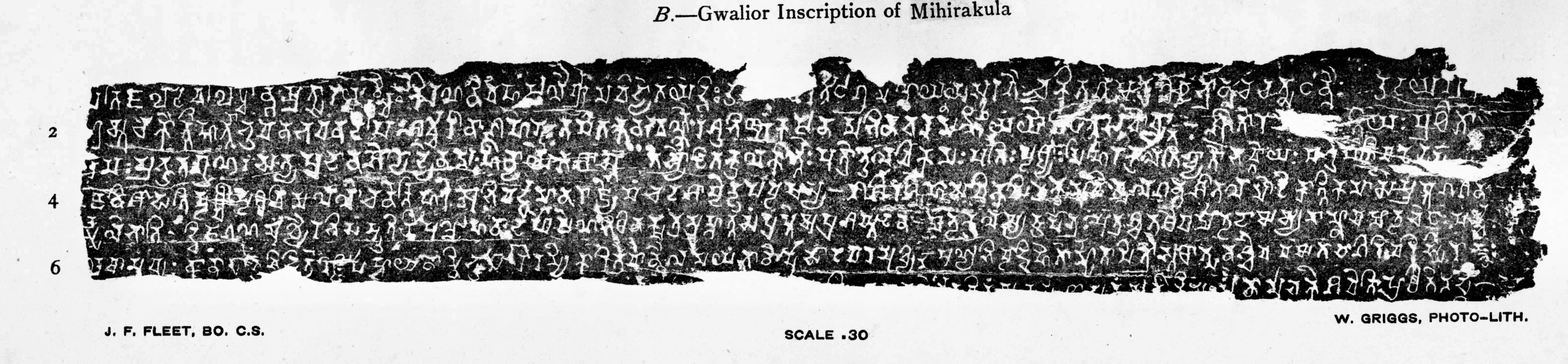 Inked impression of the Inscription of the Huna king Mihirakula, from Suraj Kund, Gwalior, Madhya Pradesh.